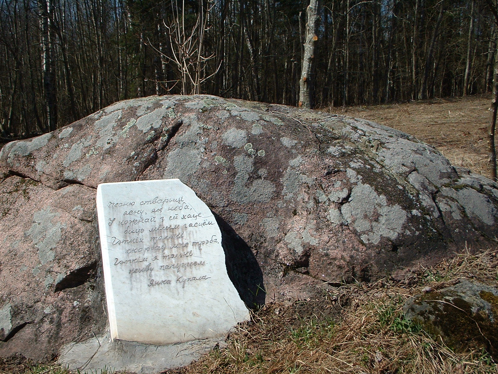 Boulder with a memorial plaque in Akopy near Kharuzhancy, BelarusБеларуская (тарашкевіца): Валун з мэмарыяльнай дошкай на месцы былога фальварку Акопы ля Харужанцаў (Беларусь), на ім любіў адпачываць Янка Купала